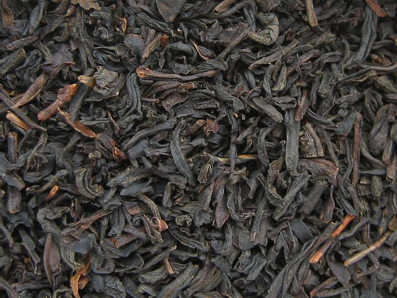 Twinings brand Earl Grey tea leaves